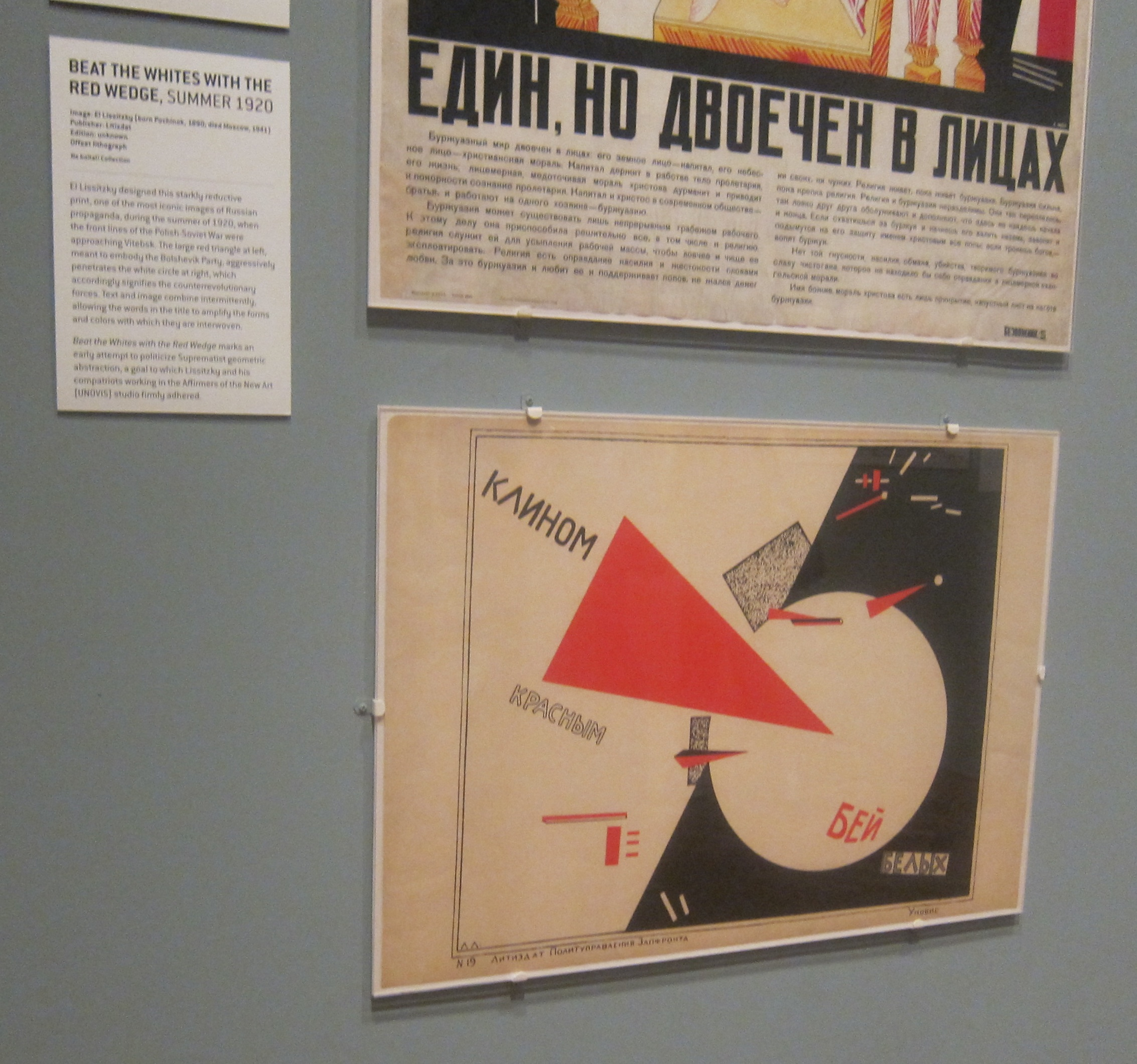 Beat the Whites with the Red Wedge, Soviet Union Propaganda Art